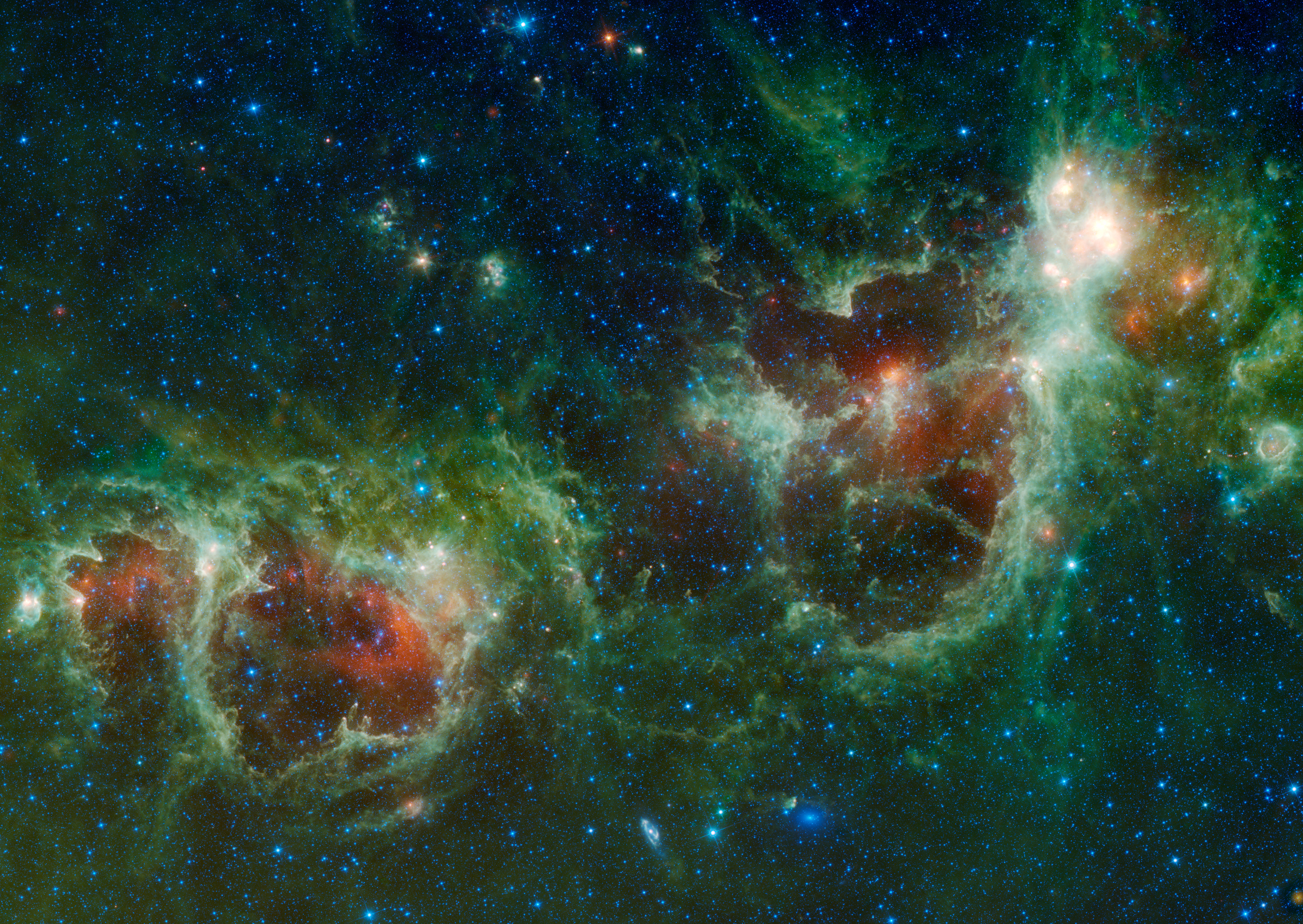 The Heart and Soul nebulae are seen in this infrared mosaic from NASA's Wide-field Infrared Survey Explorer, or WISE. Also visible near the bottom of this image are two galaxies, Maffei 1 and Maffei 2. Maffei 1 is the bluish elliptical object and Maffei 2 is the spiral galaxy. All four infra-red detectors aboard WISE were used to make this image. Colour is representational: blue and cyan represent infra-red light at wavelengths of 3.4 and 4.6 microns, which is dominated by light from stars. Green and red represent light at 12 and 22 microns, which is mostly light from warm dust.